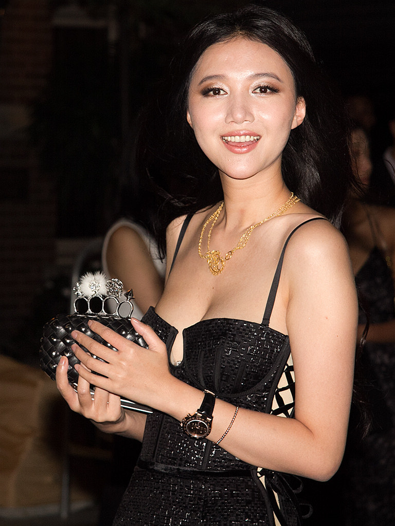 Toronto International Film Festival 2012Note: This actress Han Wenwen was born in 1982, and should not be confused with the 1995-born actress of the same name that appeared in The Karate Kid.